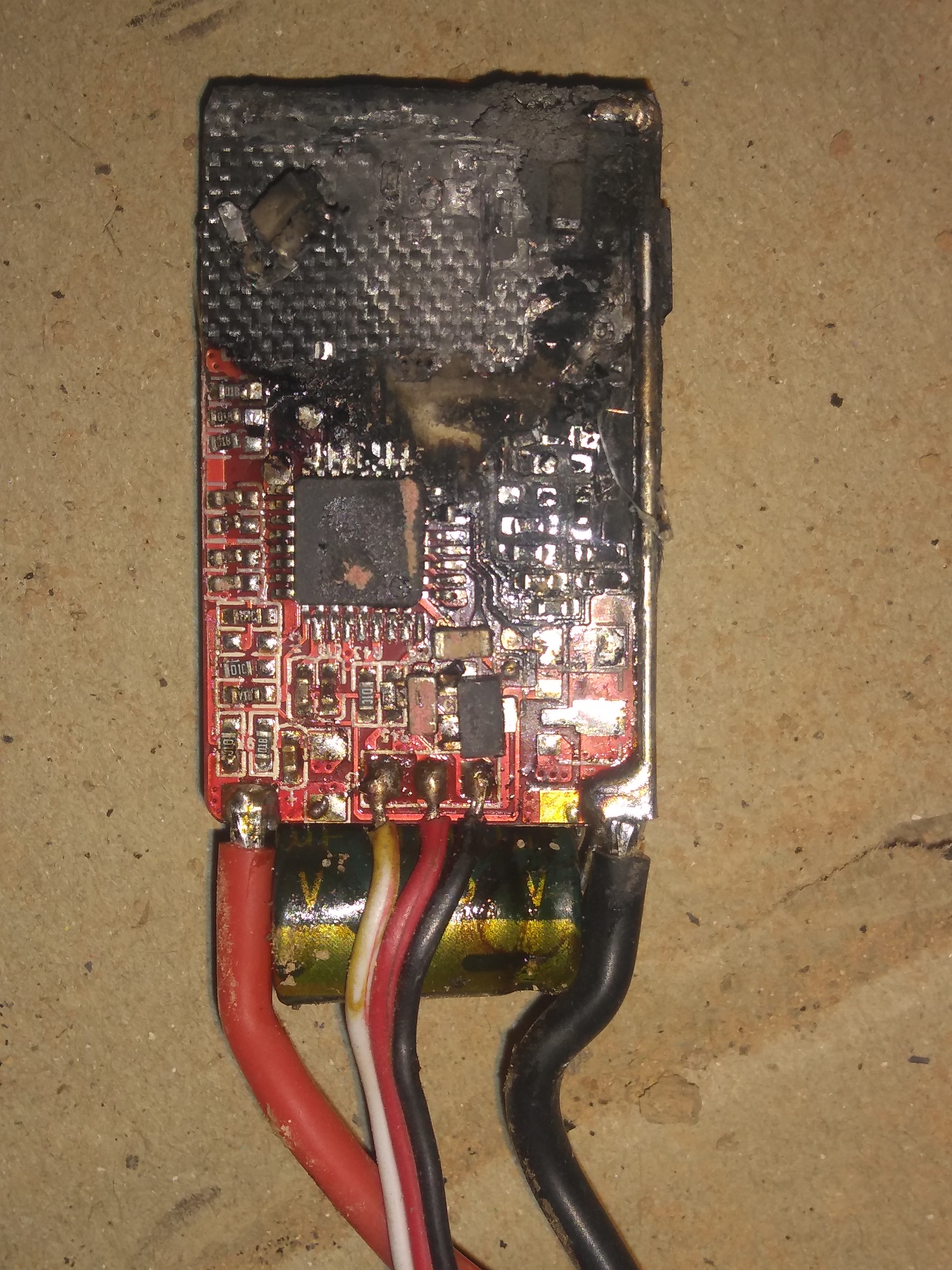 A Electronic speech controller that is burnt due to over voltage